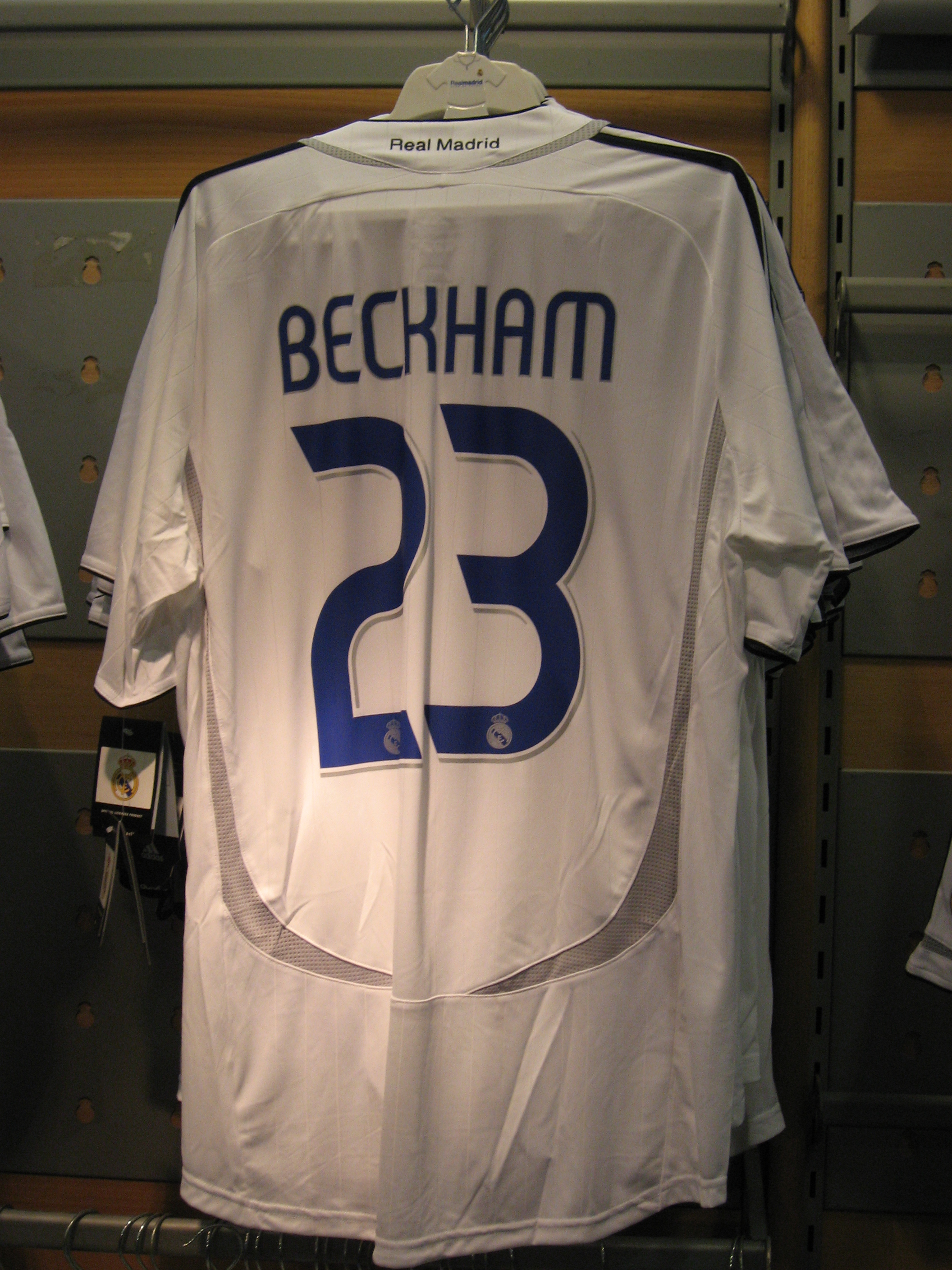 David Beckham's shirt at Real Madrid